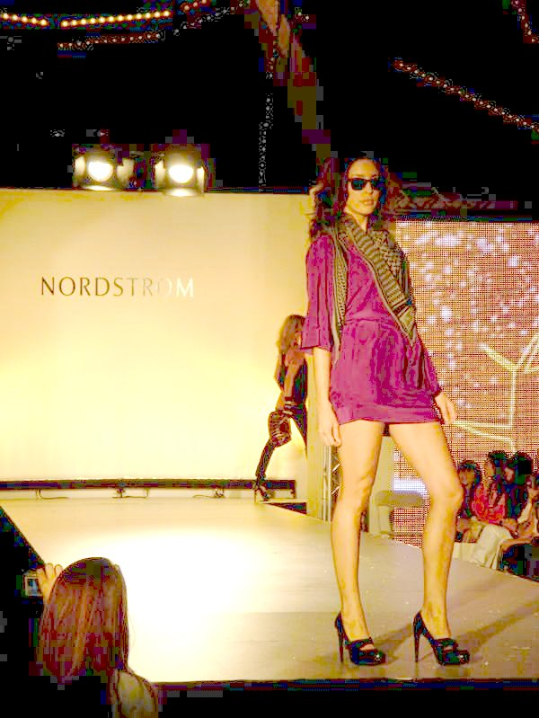 Nordstrom Fashion show in the Irvine Spectrum for OC Style week